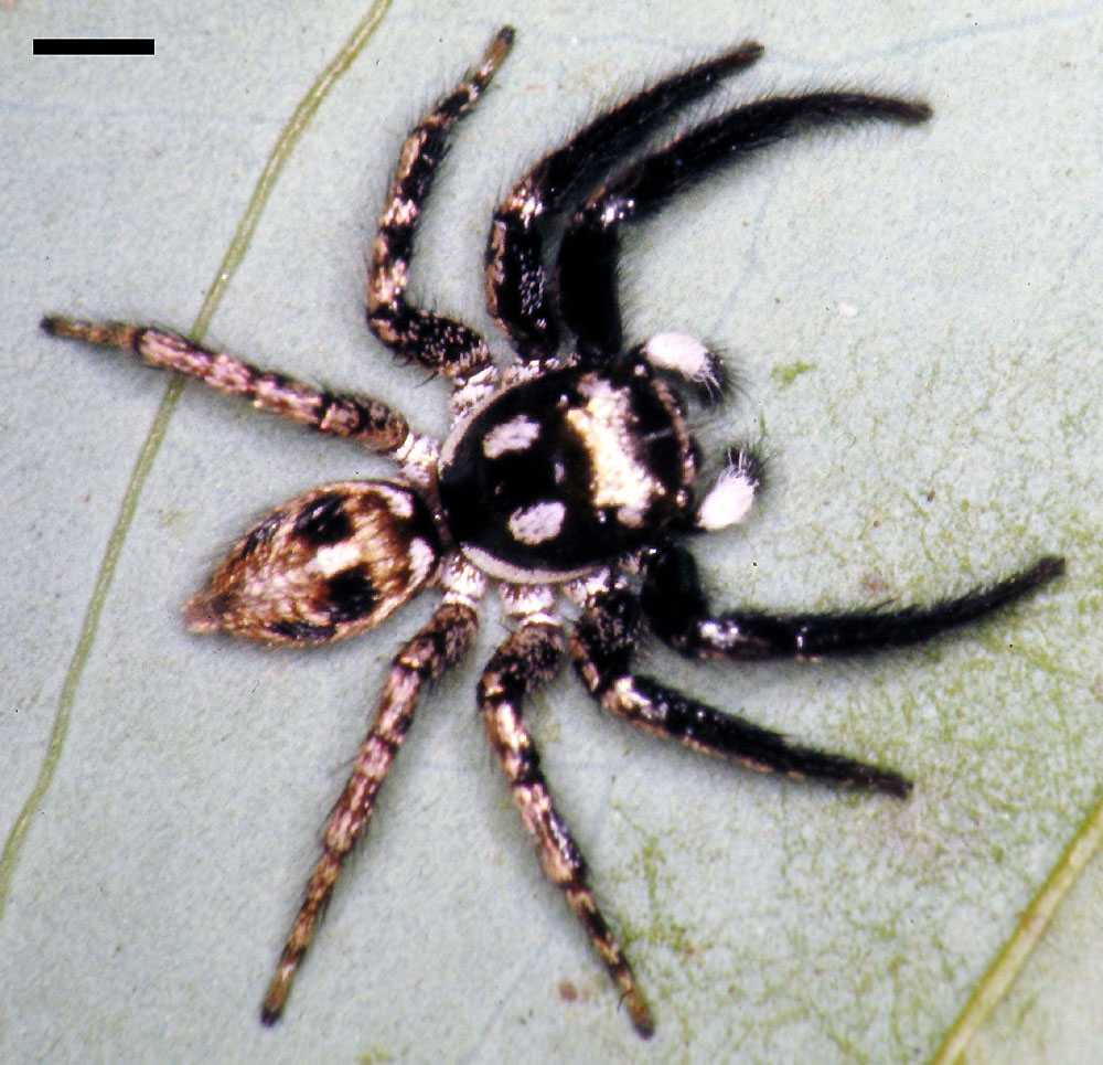 Male Anasaitis canosa jumping spider from Alachua county, Florida, USA